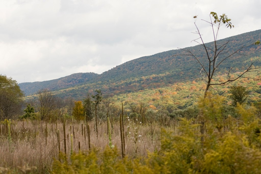 A view of Bald Eagle Mountain from Bald Eagle State Park